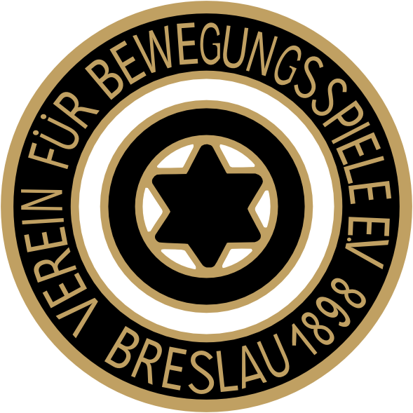 Logo of VfB 98 Breslau, German football team.